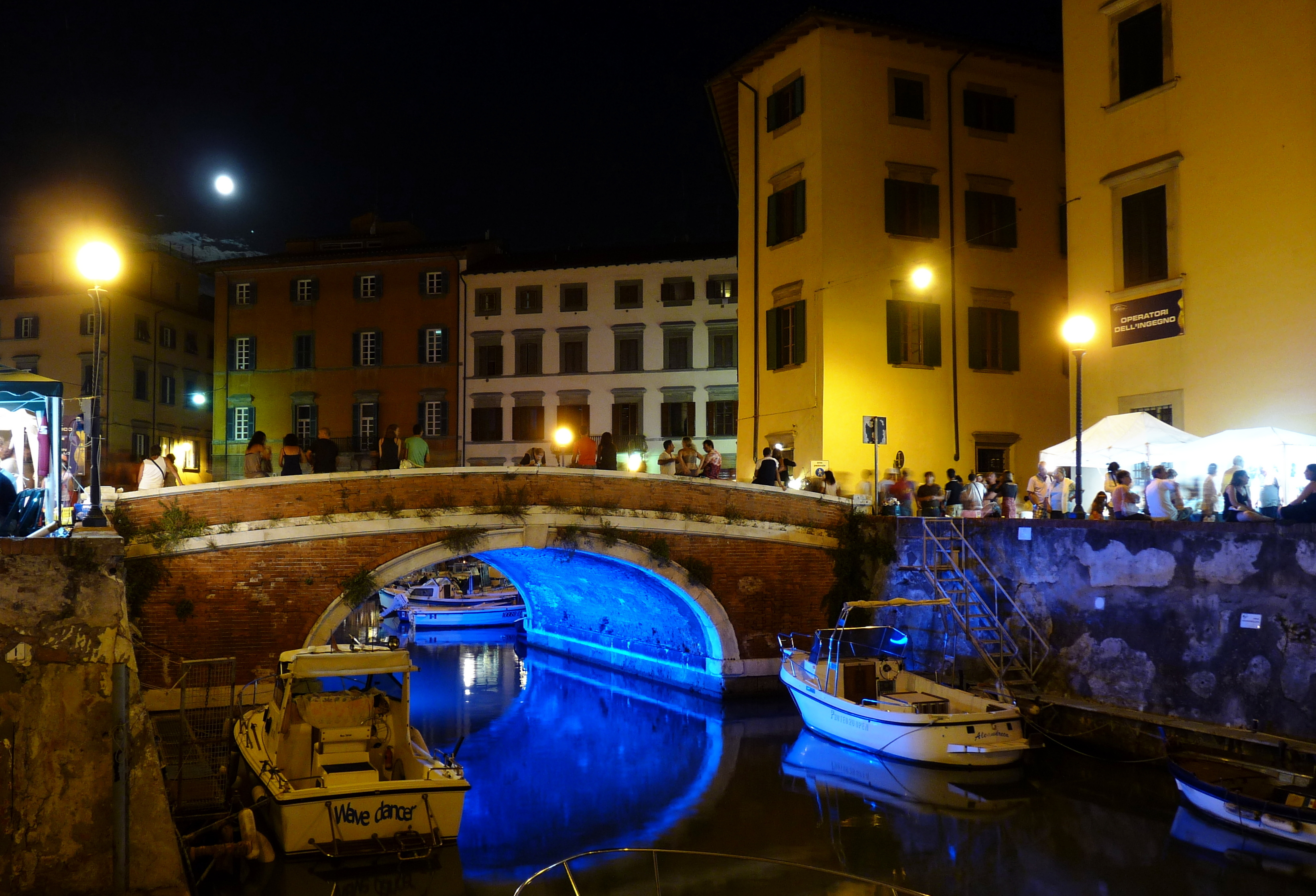 "Effetto Venezia", Livorno, Italy - 2009